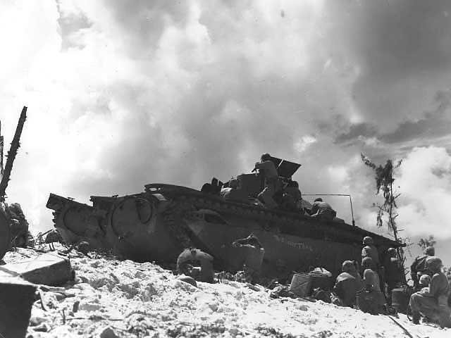 Amtrac shelter. Engaged in the bitter struggle to establish the Peleliu beachhead